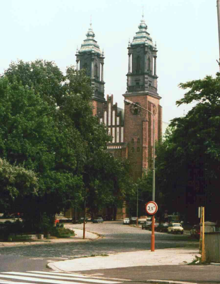 Archcathedral Basilica of St. Peter and St. Paul, Poznań